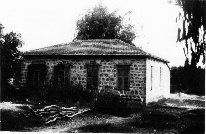 Settlements in Israel